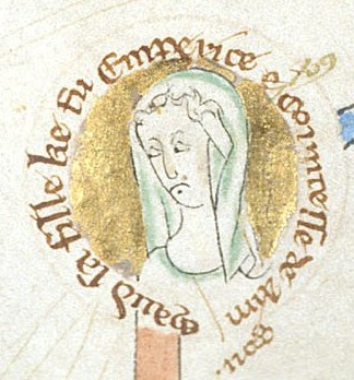 Empress Mathilda